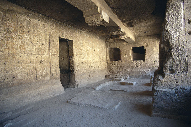 Portico, rock temple of Hatshepsut, Istabl Antar, Egypt